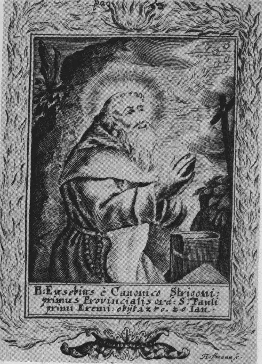 Engraving plate with blessed Eusebius of Esztergom, 17th cnt.